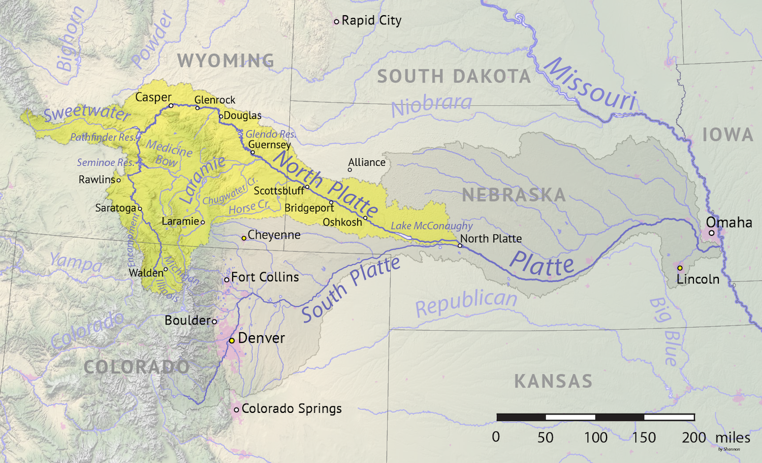 Map of the North Platte River drainage basin, a tributary of the Platte River, in the central US. Made using USGS National Map and NASA SRTM data.